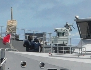 Detail of TTS Brighton CG 24, moored in St. George's, Grenada, showing her Rheinmetal Seahawk 20mm autocannon. VIRIN = 160607-G-BX086-009